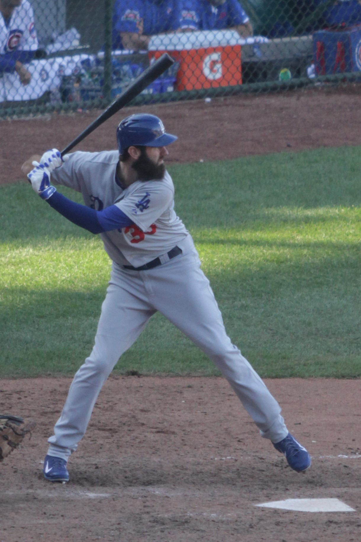 Scott Van Slyke for the 2014 Los Angeles Dodgers against the 2014 Chicago Cubs at Wrigley Field.